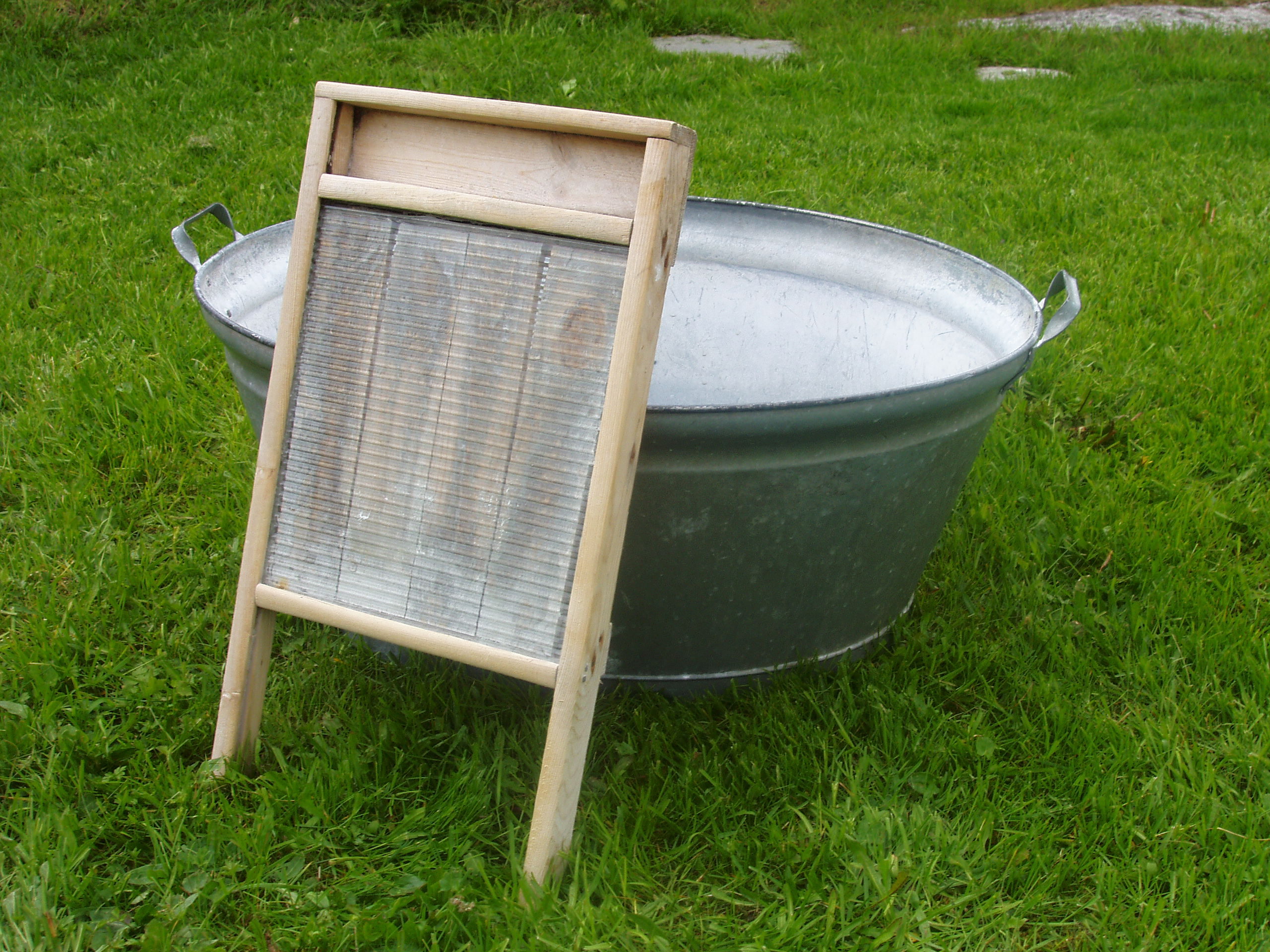 Equipment for washing by hand